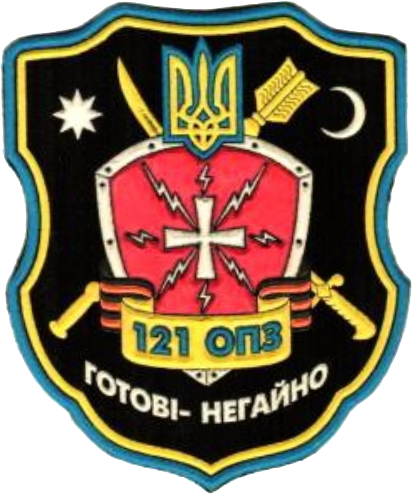 Ukrainian Army 121st Signal Regiment shoulder sleeve insignia